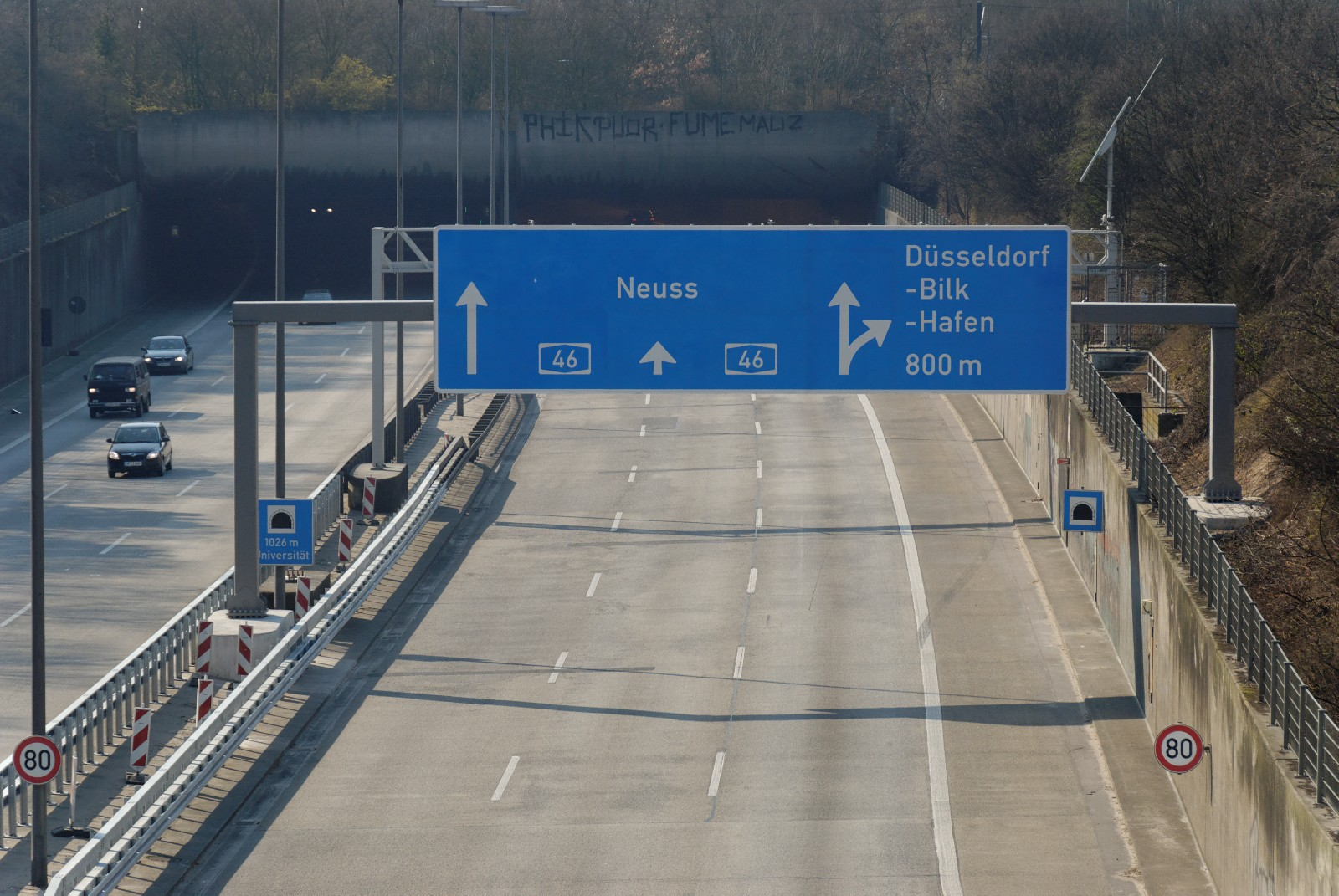 University Tunnel in Düsseldorf-Bilk, Germany